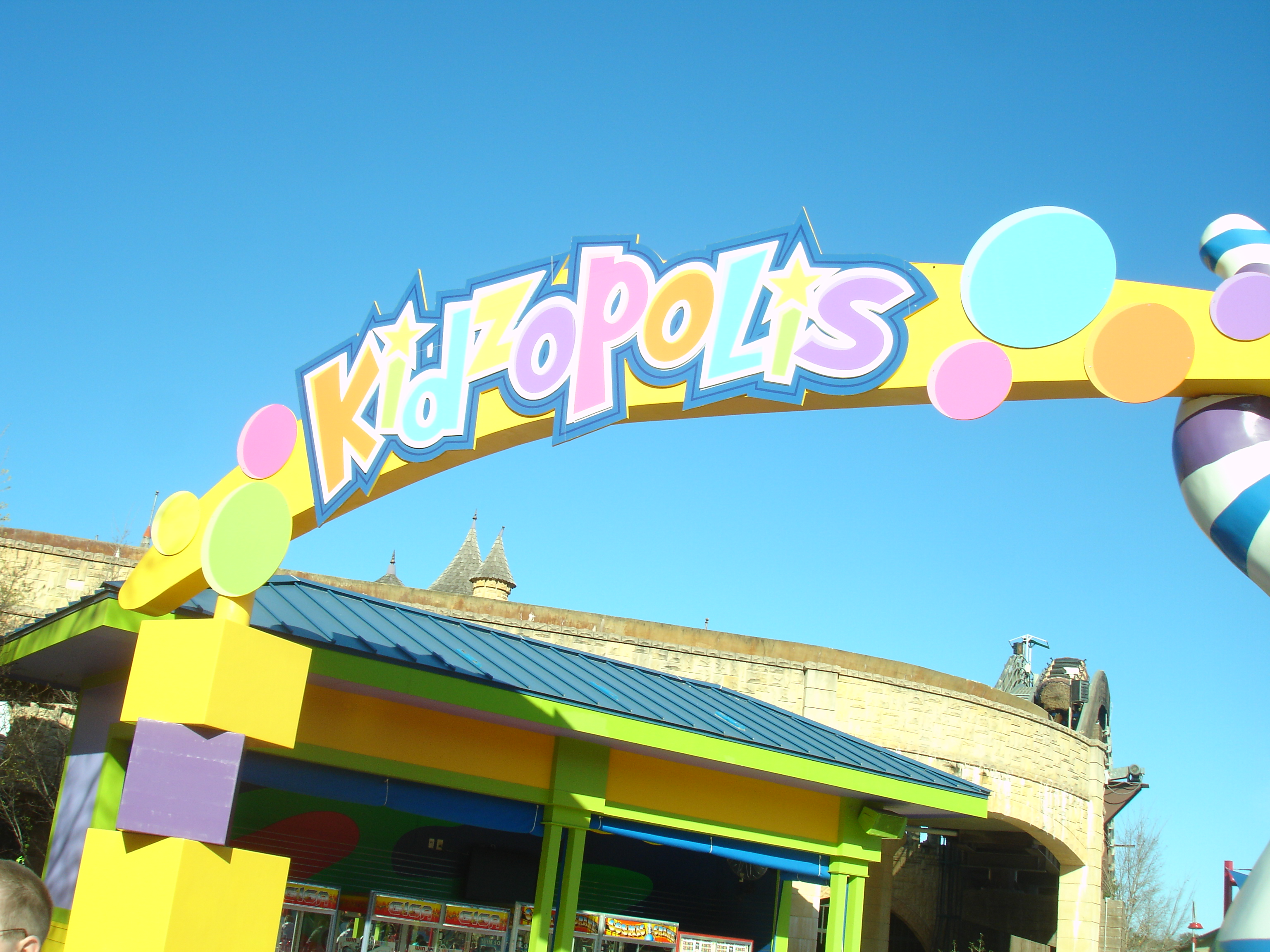 The new Kidzopolis sign at Fiesta Texas on Opening Day 2011 (March 5th, 2011). You can see my trip report on